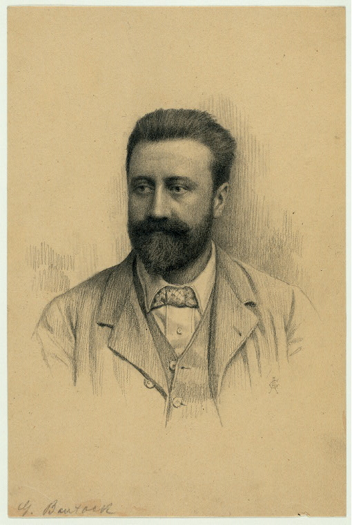 Pencil drawing of Granville Bantock